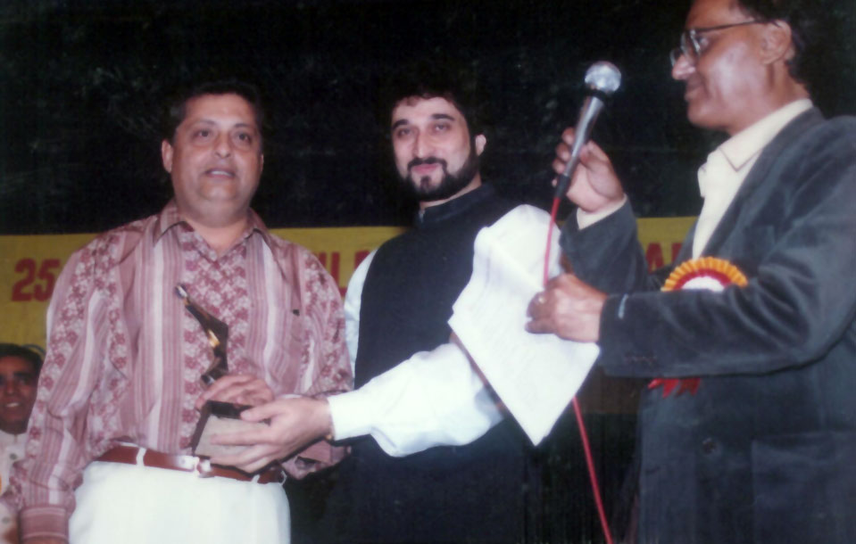 Architect & Singer Thakur Doultani with Bollywood Composer Nadeem Saifee (of Nadeem Shravan fame)